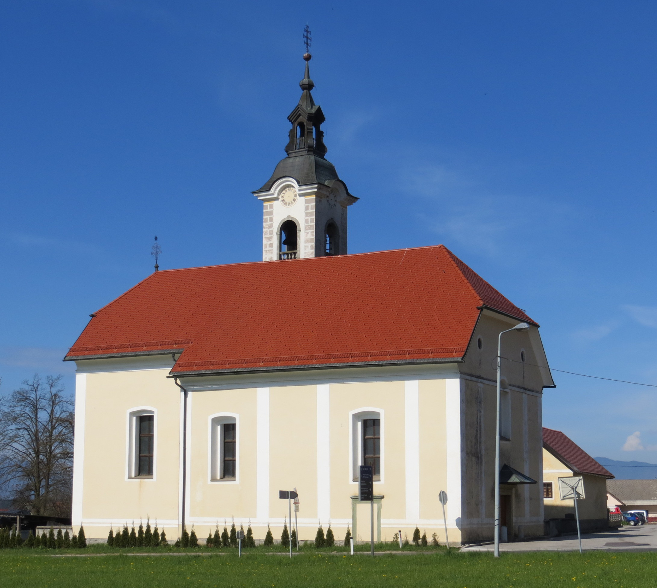 Saint Nicholas' Church in Dvorje, Municipality of Cerklje na Gorenjskem, Slovenia